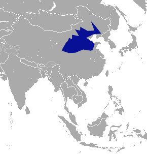 Short-faced Mole (Scaptochirus moschatus) range